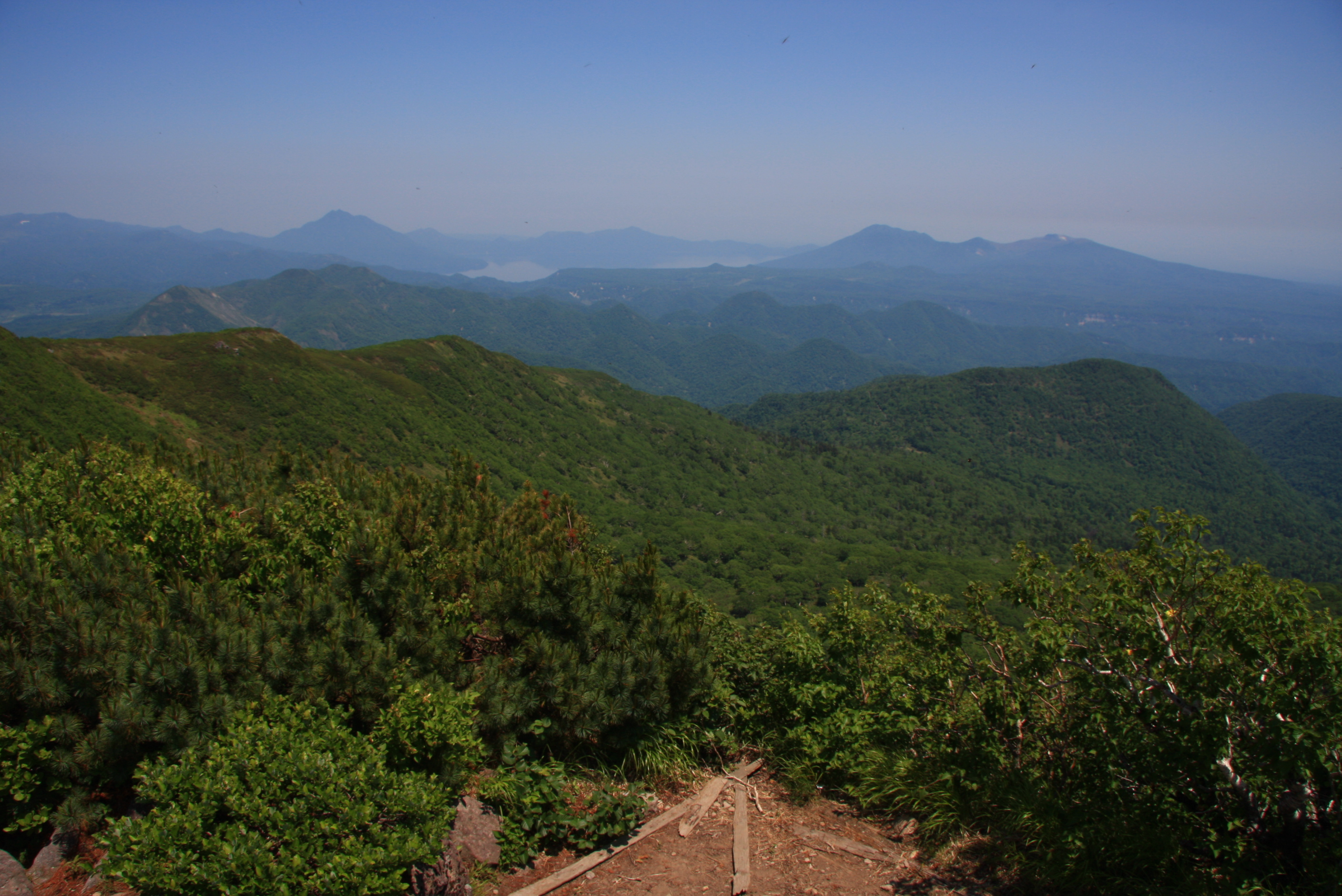 Loolonk the Northeast from Mount Horohoro in Hokkaido, Japan. Lake Shikotsu in the furthest.